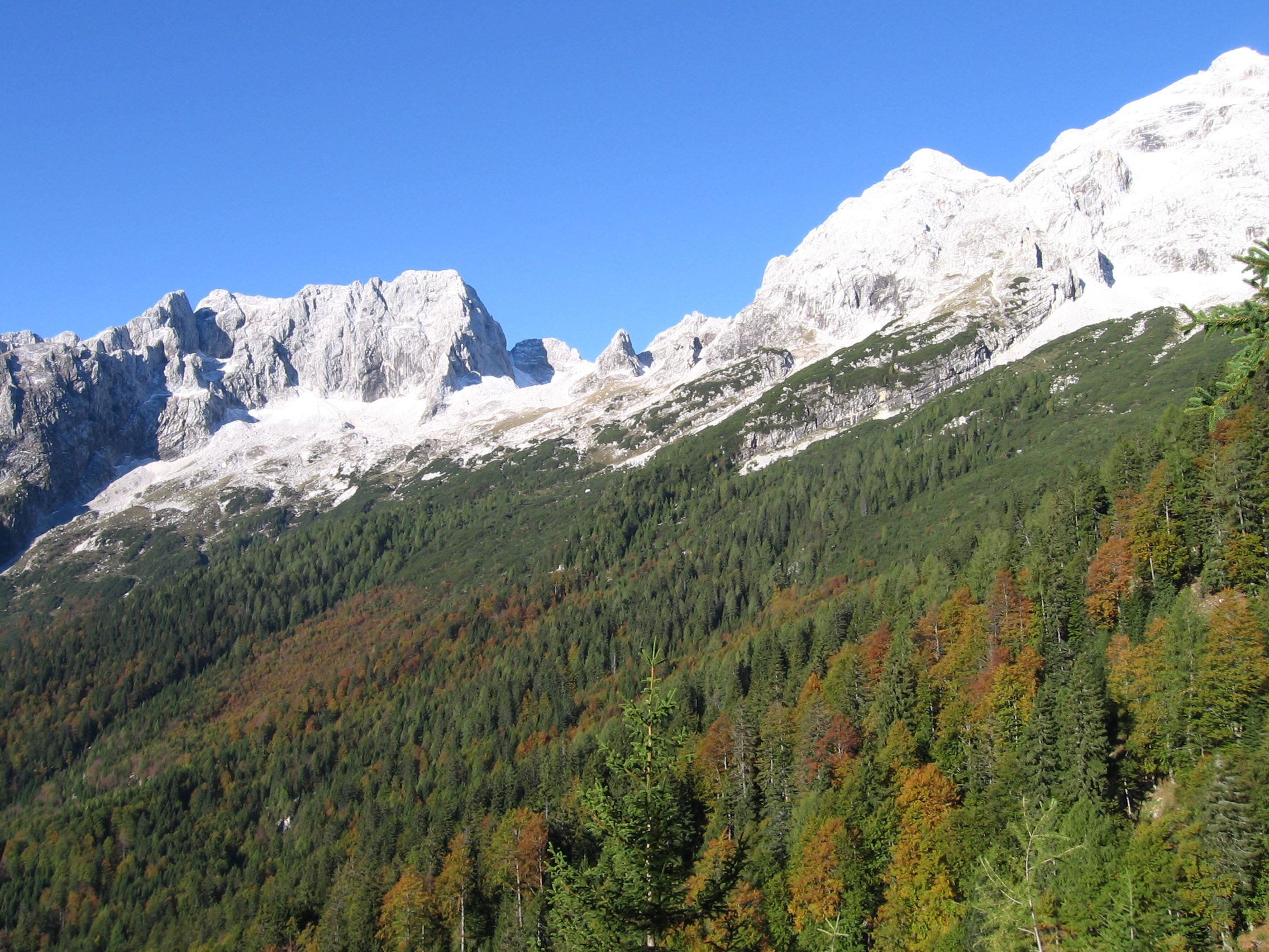 Špiček (peak) in the middle, Pelci on the left and Mt. Jalovec on the right, above the valley of Zadnja Trenta, Julian Alps